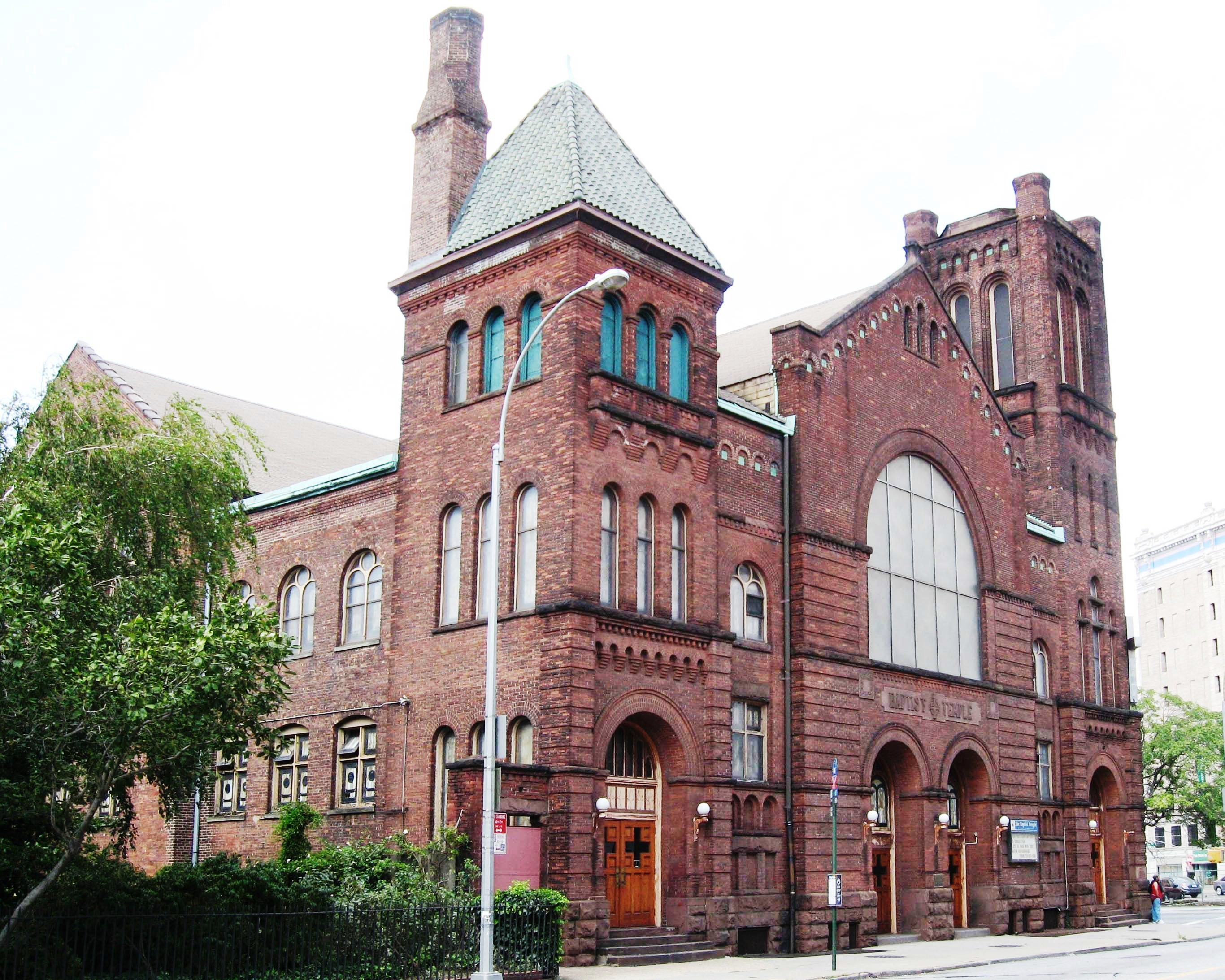 Looking north across 3rd Avenue at the Baptist Temple in Brooklyn, on a sunny midday on my way to Wiki meeting in Prospect Park